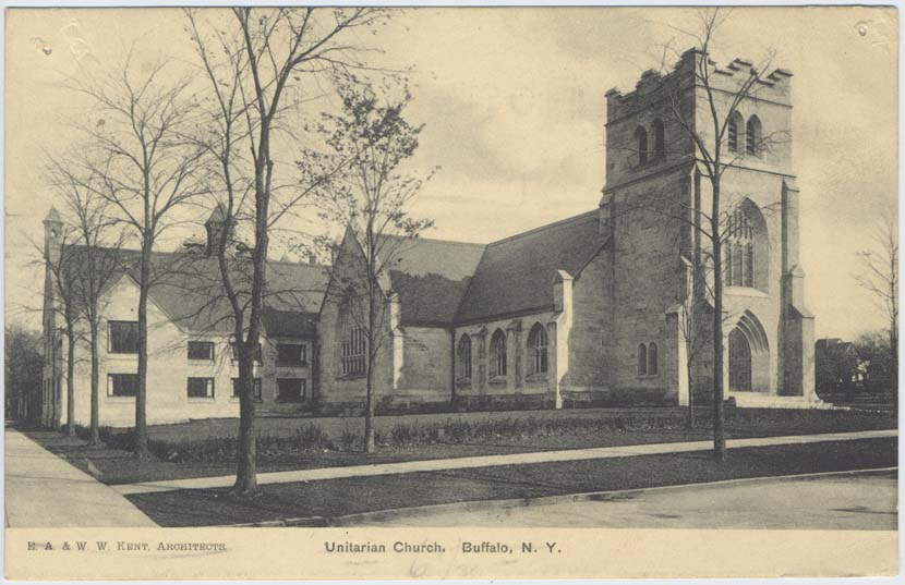 Unitarian Church of Buffalo, N.Y. Stone church building with louvered belfry - perspective view from left corner. Printed caption - E. A. & W. W. Kent, Architects. Unitarian Church, Buffalo, N. Y. Black and white print. Divided back period, 1907-1914.